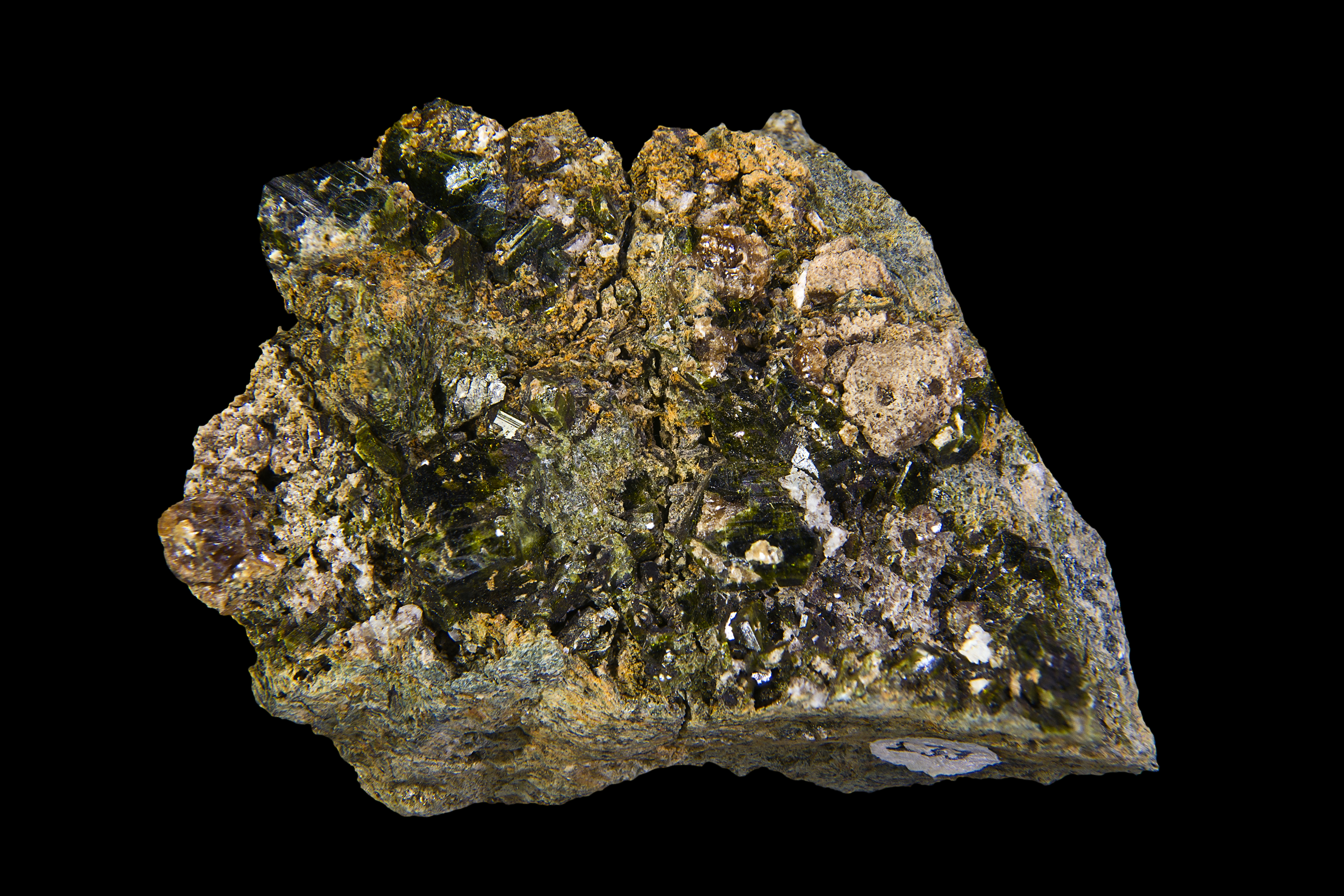 Augite (var. Fassaite). Deposit topotype Locality : Toal de la Foia, Monti Monzoni, Val di Fassa, Trento, Trentino-Alto Adige, Italia Size :4x3x2 cm